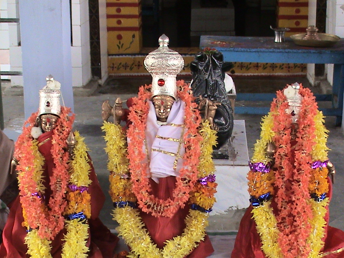 Utsav Idols of Lord Shiva in Sakaleshwara Swamy Temple